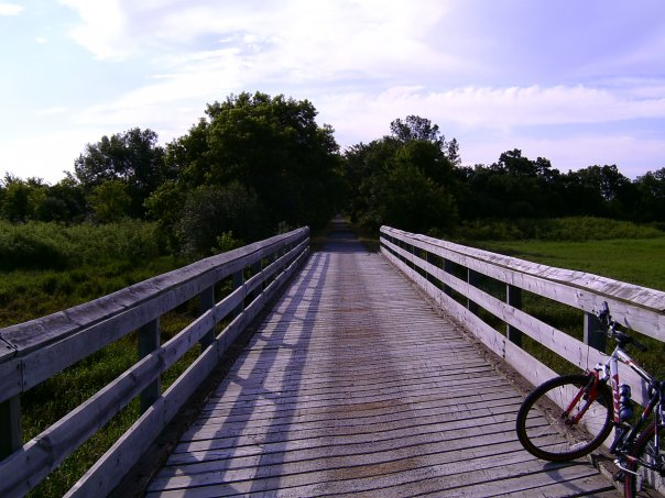 Bridge on the Glacial Drumiln State Trail